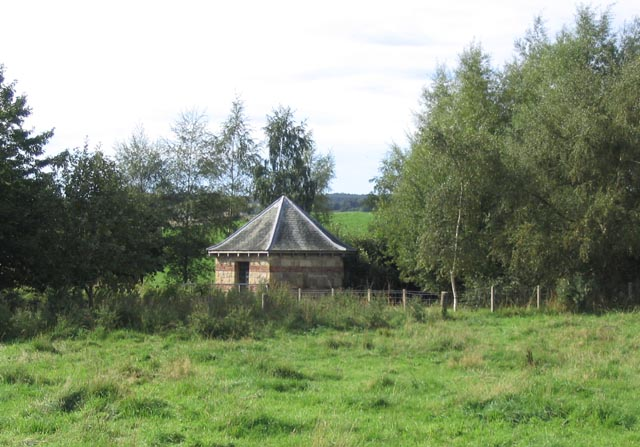 Hexagonal shaped folly near Crailinghall.